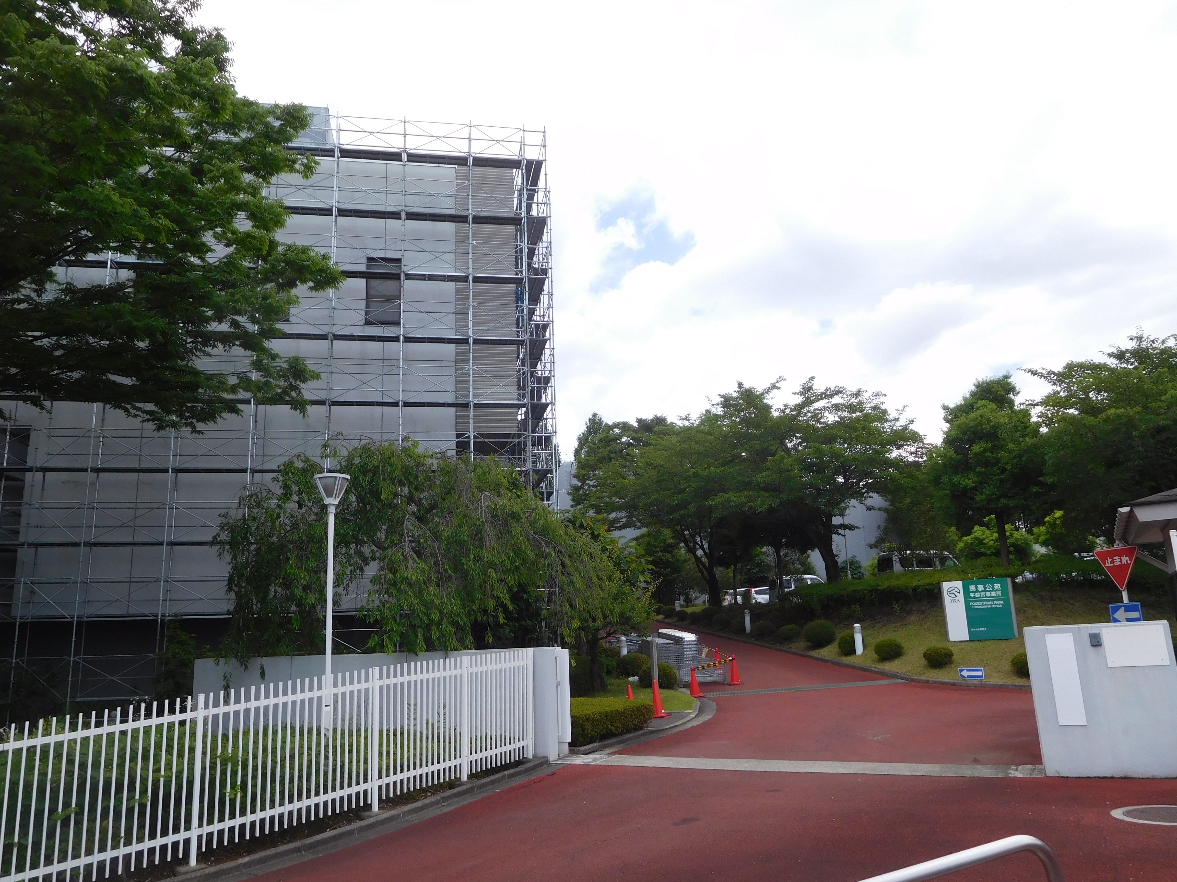 This is the Equestrian Park Utsunomiya Office in Utsunomiya, Tochigi, Japan.